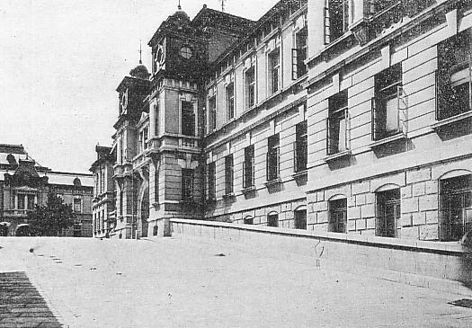 Nagasaki Prefectural Office circa 1930